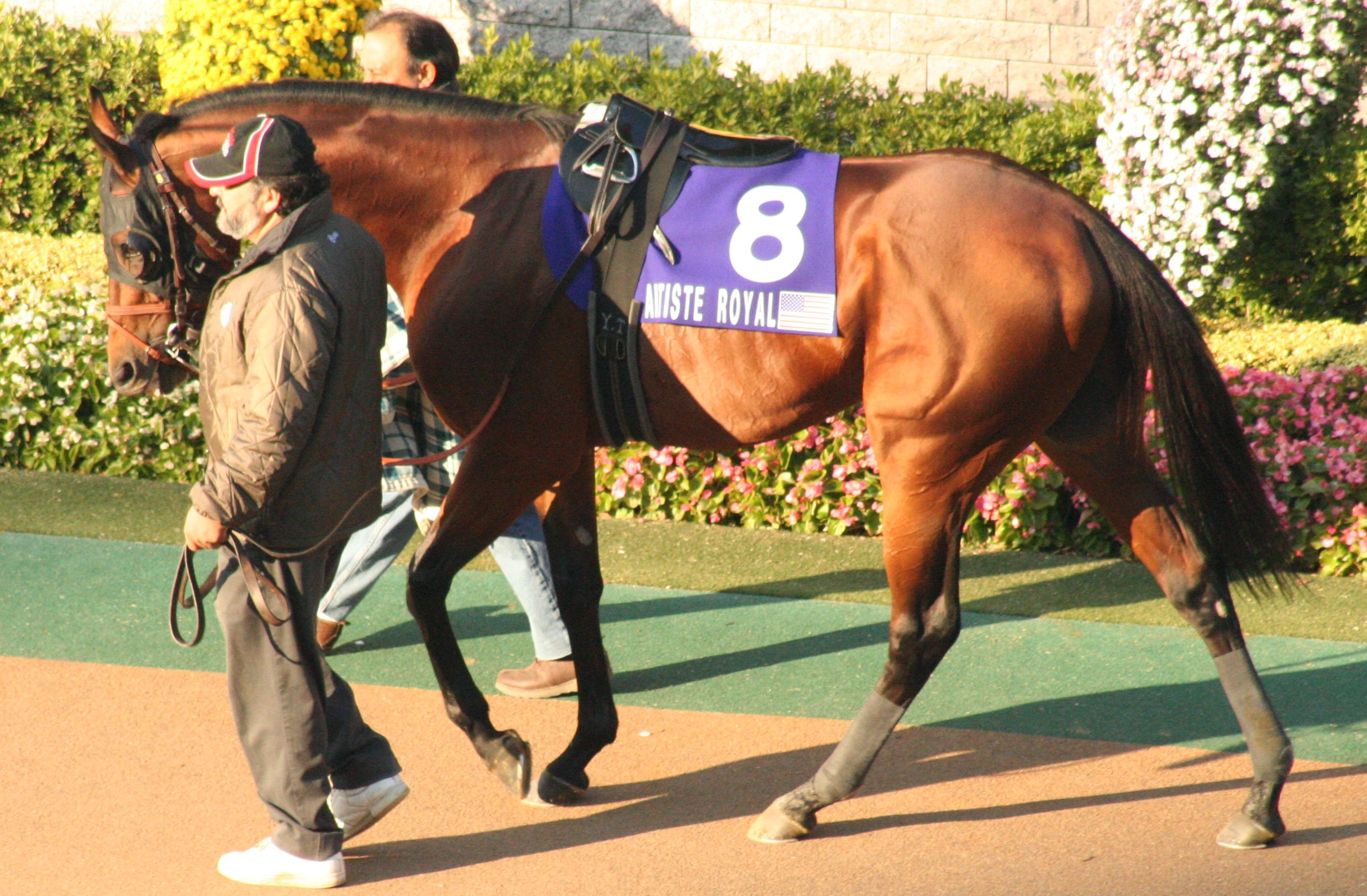 Artiste Royal